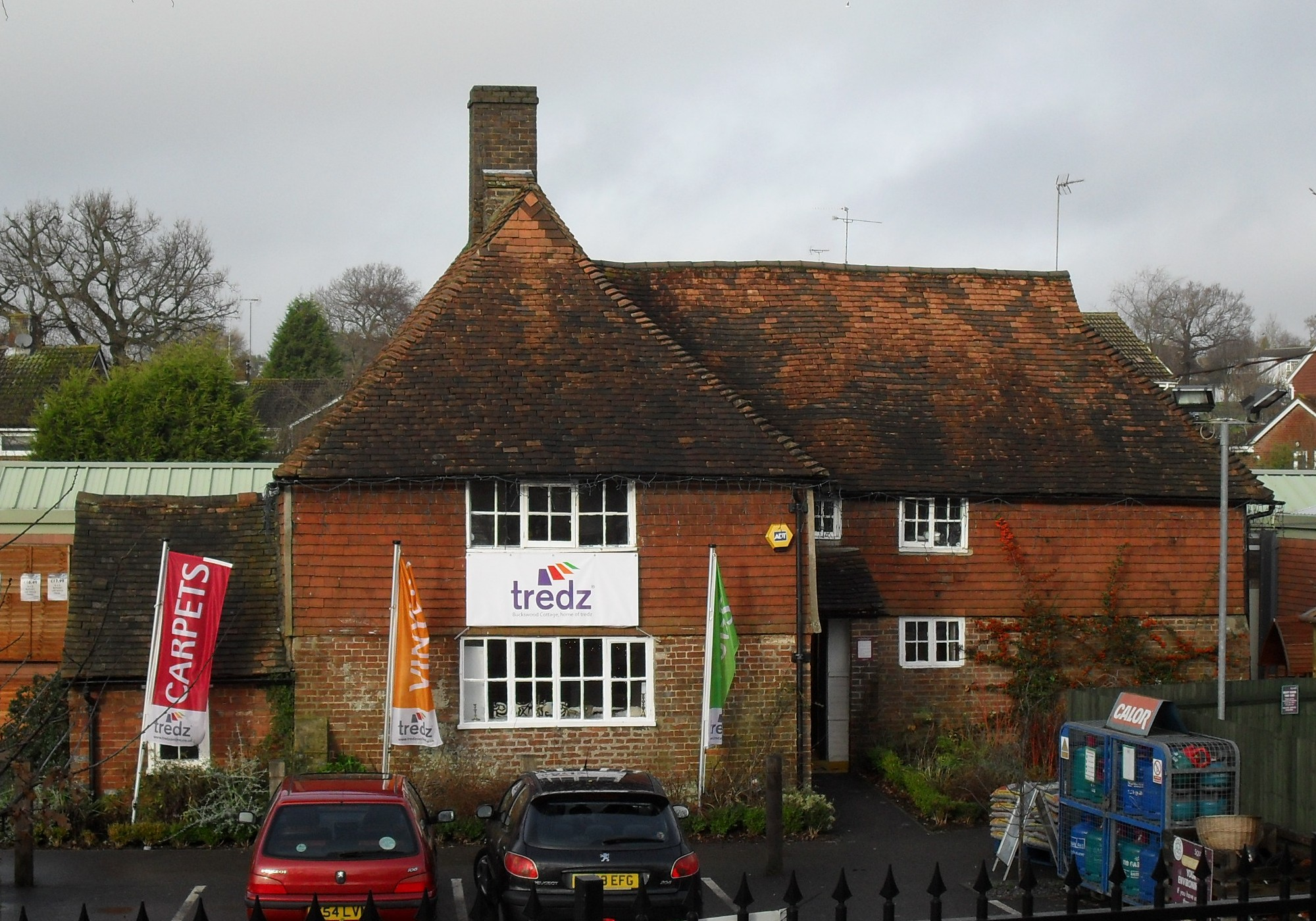 Little Buckswood Farmhouse, Gossops Green, Crawley, West Sussex, England. A 16th-century farmhouse which has been converted to commercial use. It is part of the modern Squires Garden Centre complex. Listed at Grade II by English Heritage (IoE Code 363360)